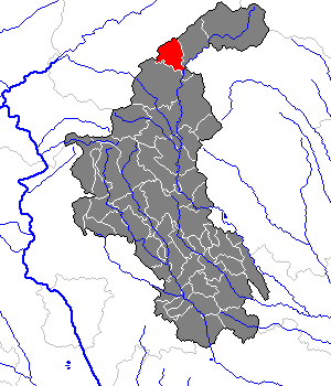 This map shows the area of the Gemeinde (municipality) Sankt Kathrein am Hauenstein in the Bezirk (district) Weiz, Styria, Austria.